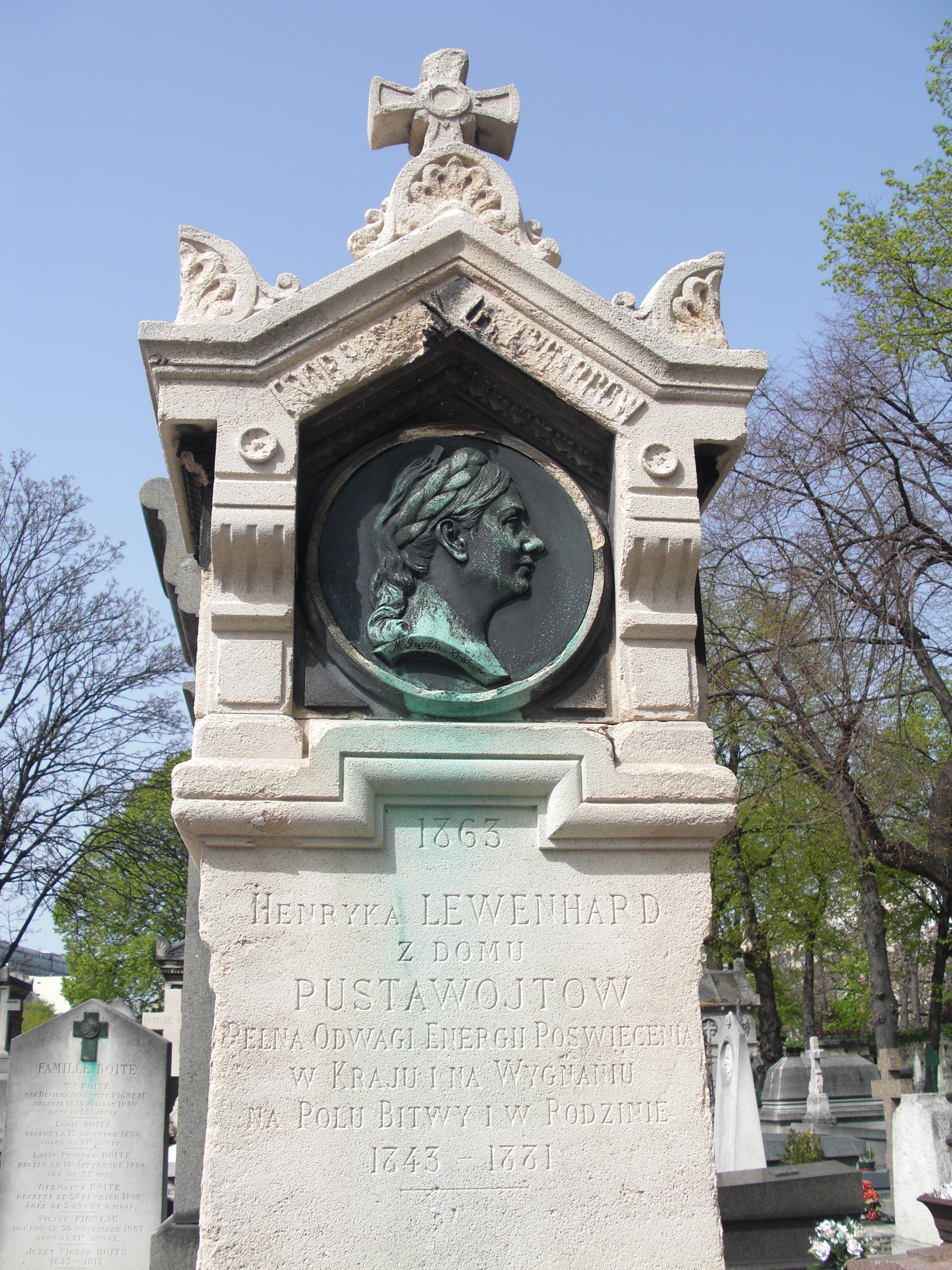 Tomb of Henryka Anna Loewenhard born Pustowojtow - details Unknown